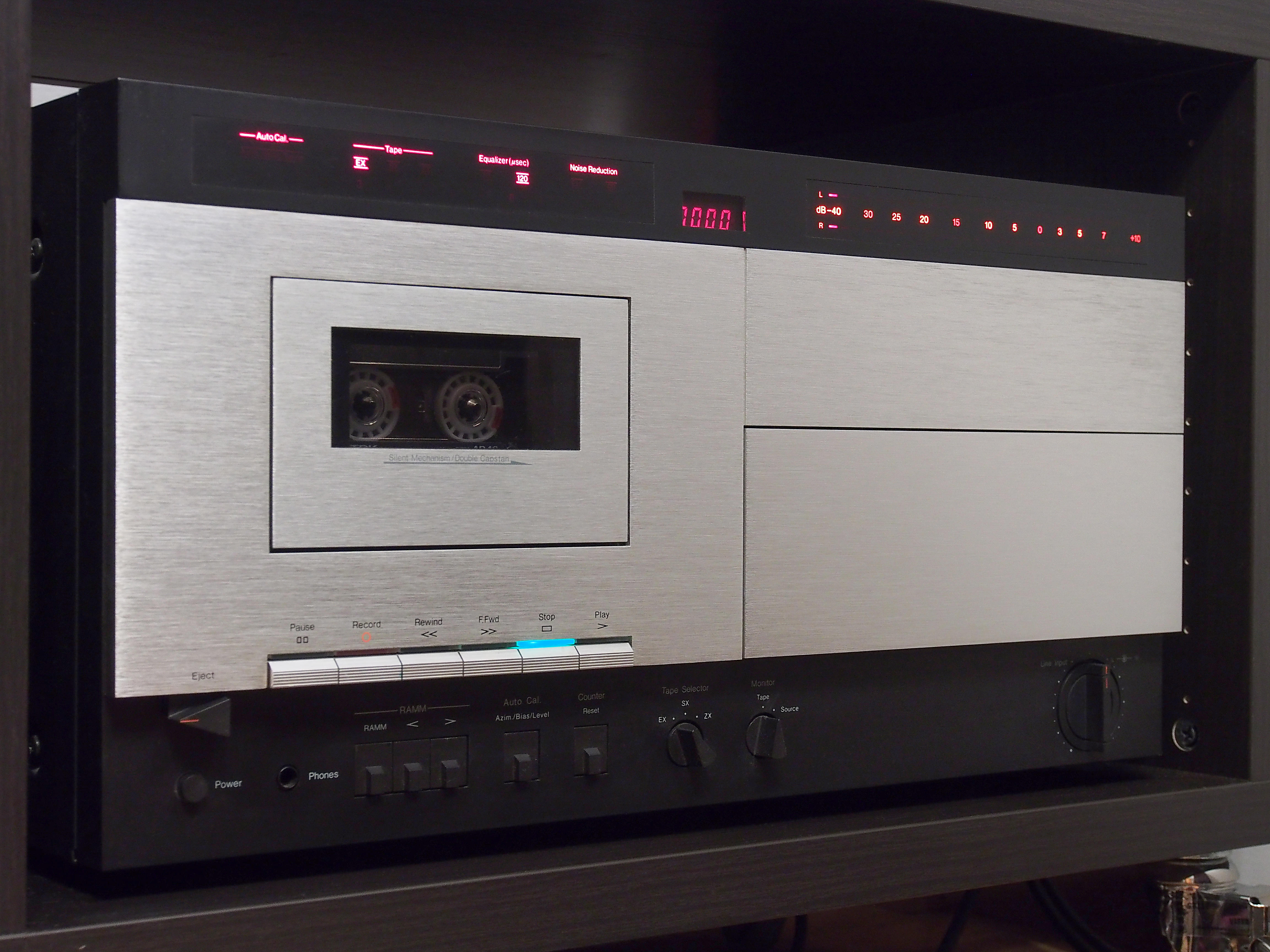 Nakamichi 700ZXE (1981-1982)